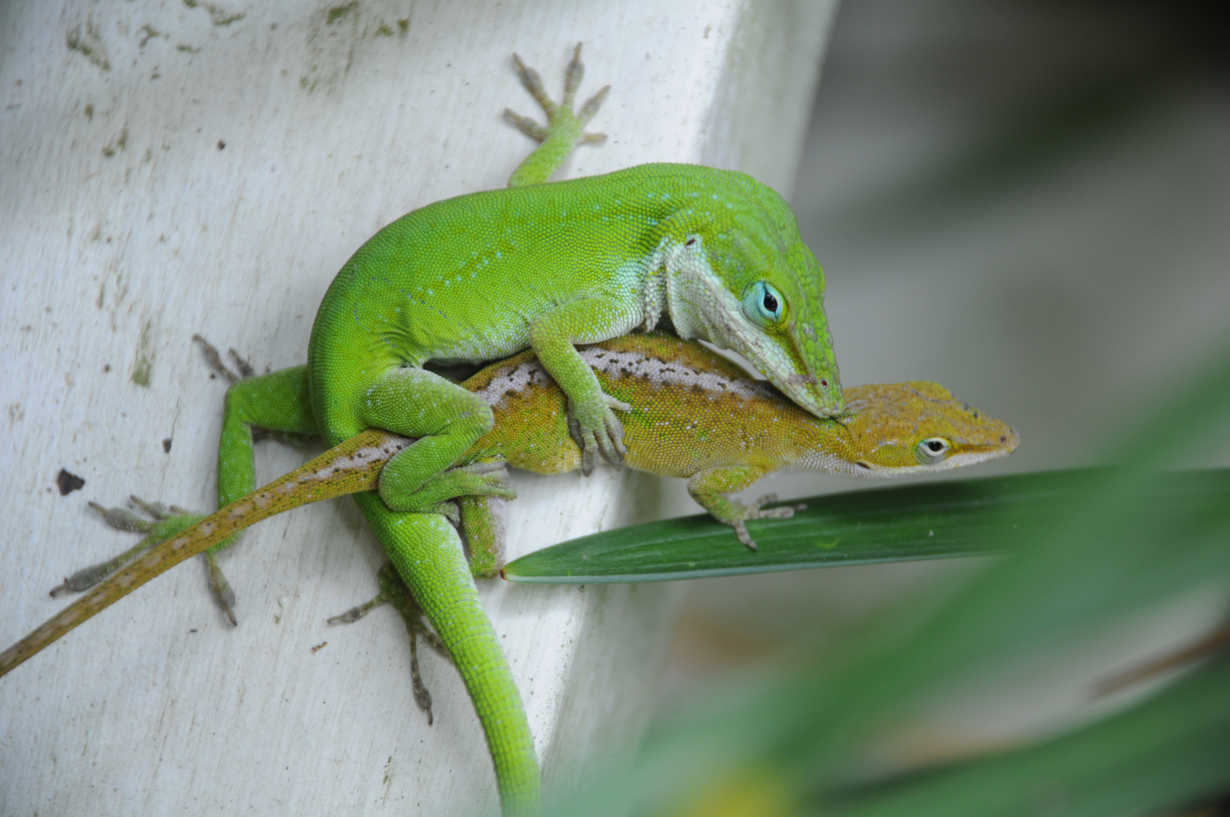 Green anoles mating (Anolis carolinensis), Carolina anole